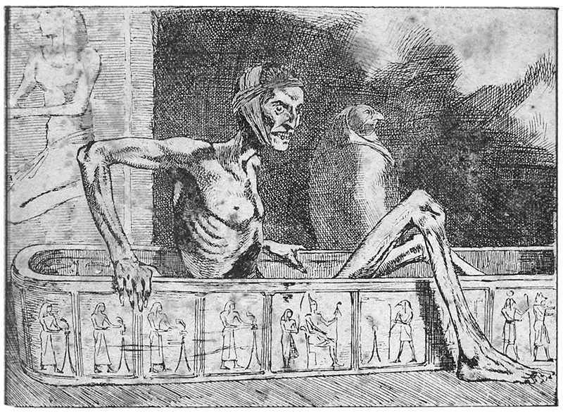 Lot No. 249 is a short story written by Arthur Conan Doyle first published in the Harper's Monthly Magazine in september 1892. Cover illustration by Martin van Maële (in Société d'Édition et de Publications, 1906) with the caption (oryginally in French): Lot No. 249